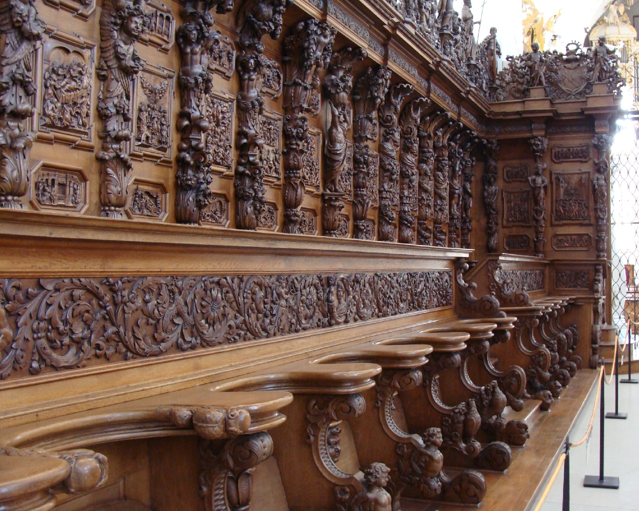 Choir stalls, Monastery St. Urban